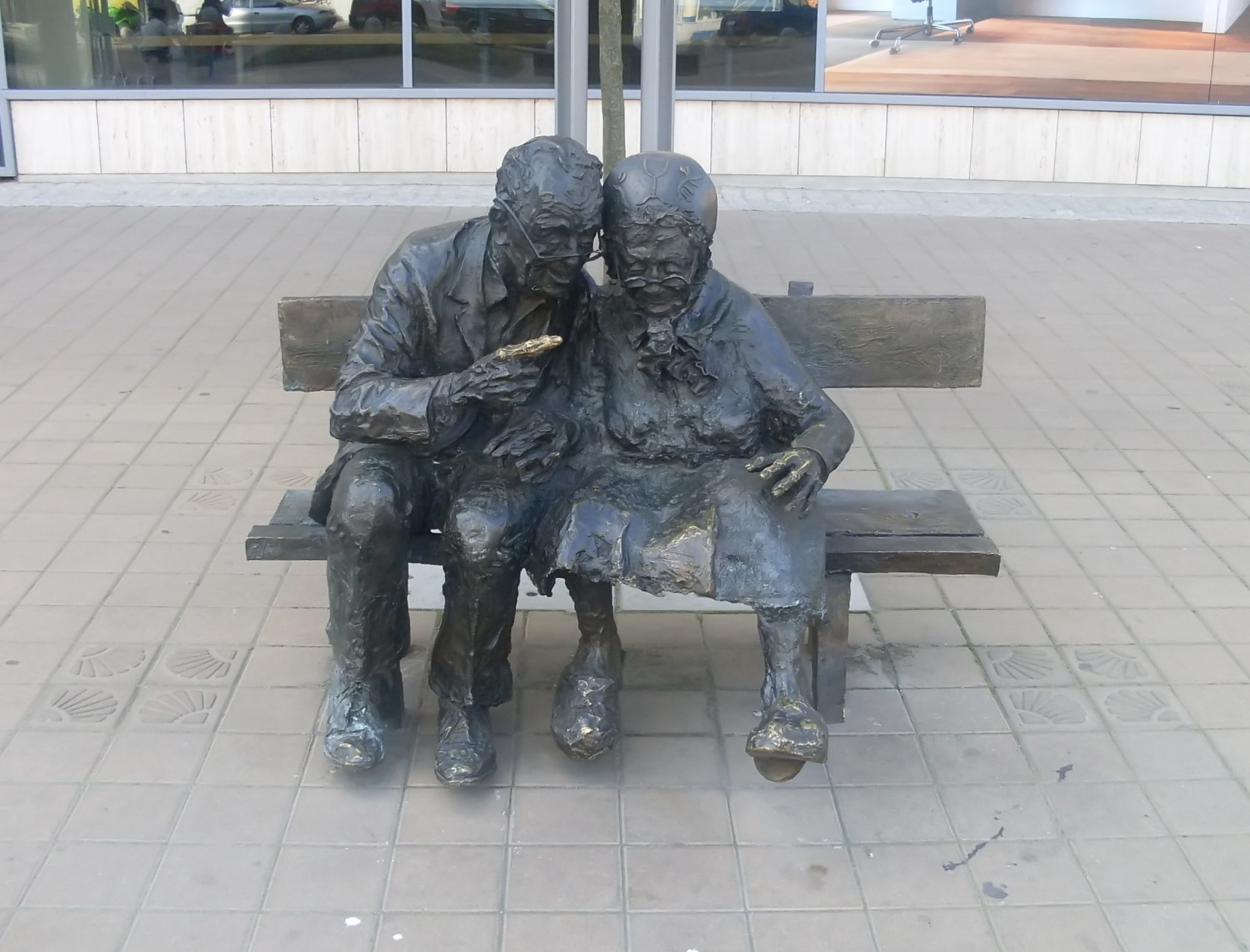 Old marriage at Plac Kaszubski in Gdynia.